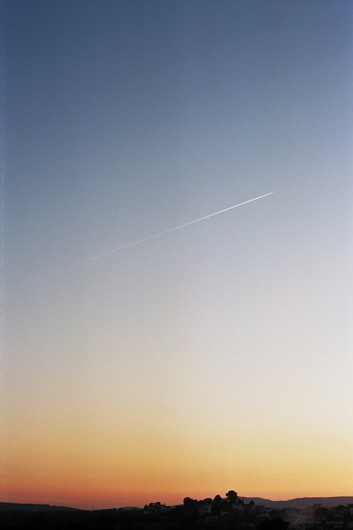 Sunset in the Penedès region of Catalonia.